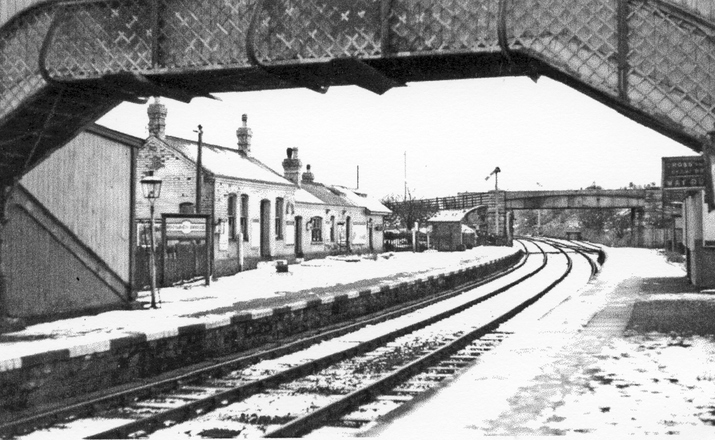 Rhymney Bridge station, 1951View west, in mid-winter, on the ex-LNWR Abergavenny Junction - Merthyr line, junction of a branch to Rhymney on the ex-Rhymney Railway (later GWR) line to Caerphilly and Cardiff. The LNW station and lines were closed 6/1/58.